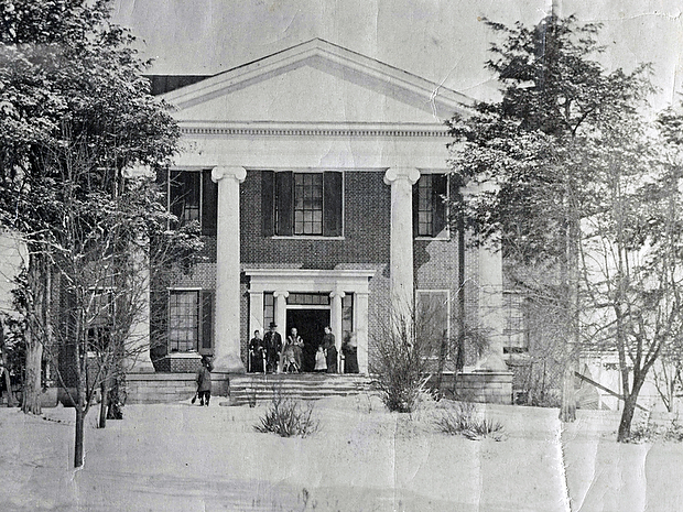 The earliest known photo of Helm Place, a mansion in Elizabethtown, Kentucky, taken in either 1866 or 1880. Helm Place was built by Kentucky Governor John LaRue Helm in 1832.